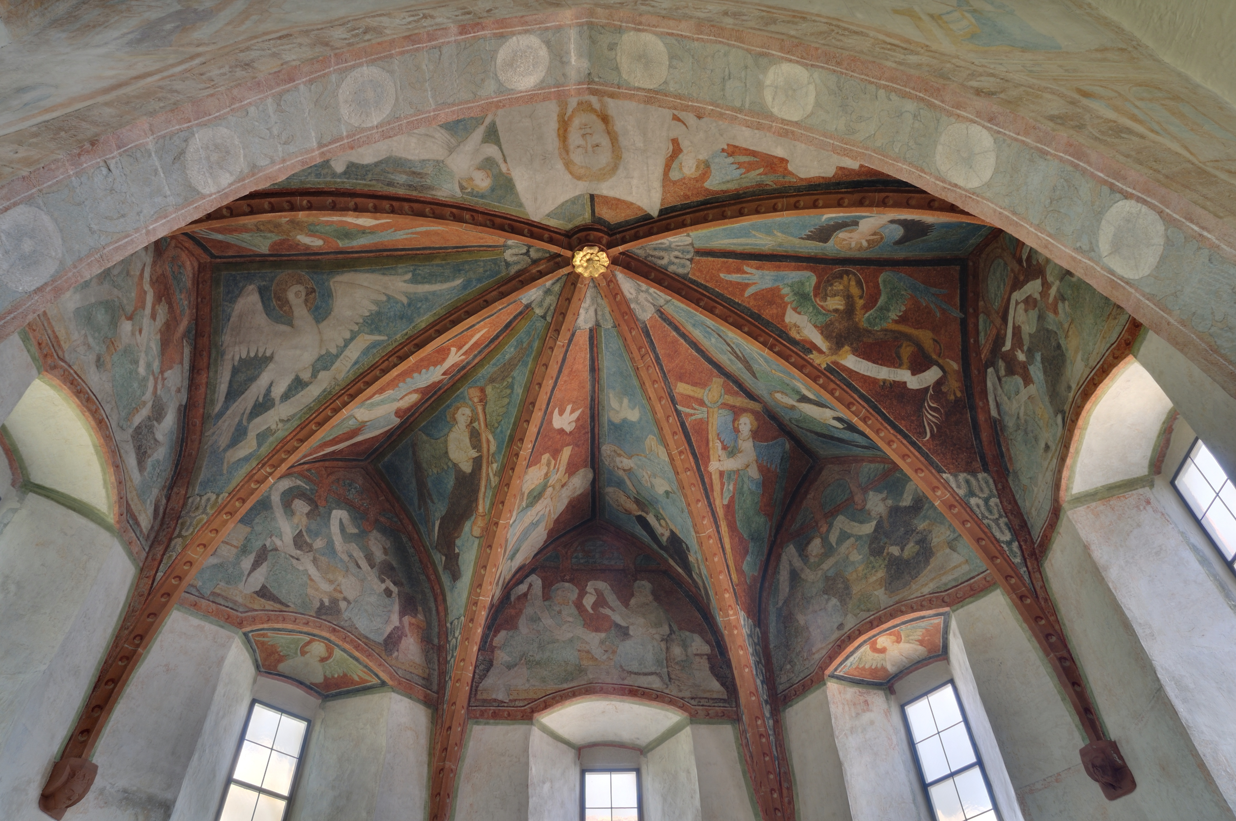 Niedereggenen: Protestant Church